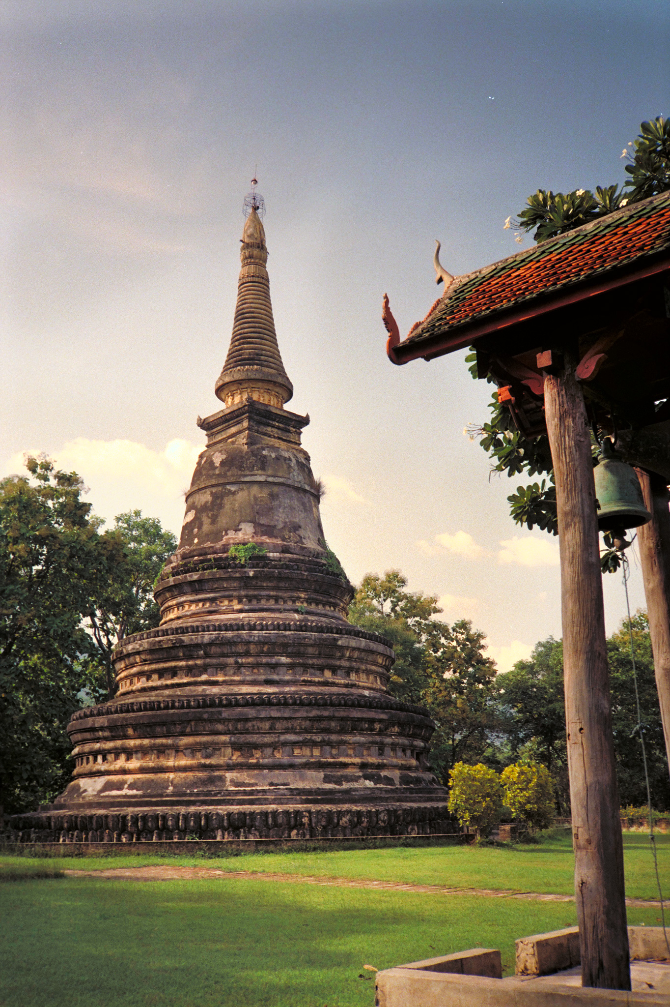 Chedi of Wat Umong Suan Phutthatham, Chiang Mai, northern Thailand